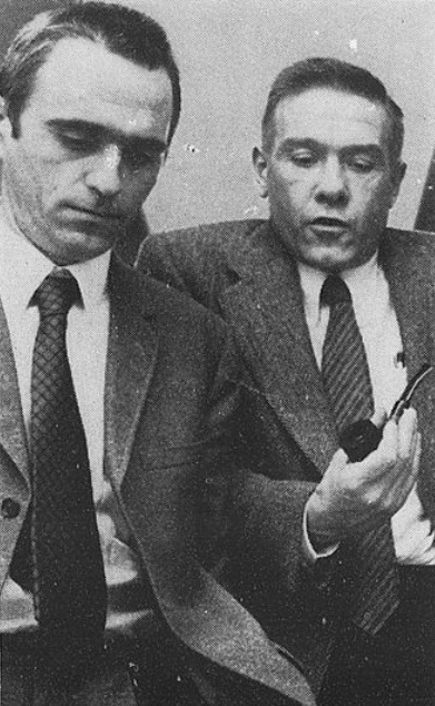 Italian trade unionists Pierre Carniti and Bruno Trentin during a reunion in Rome